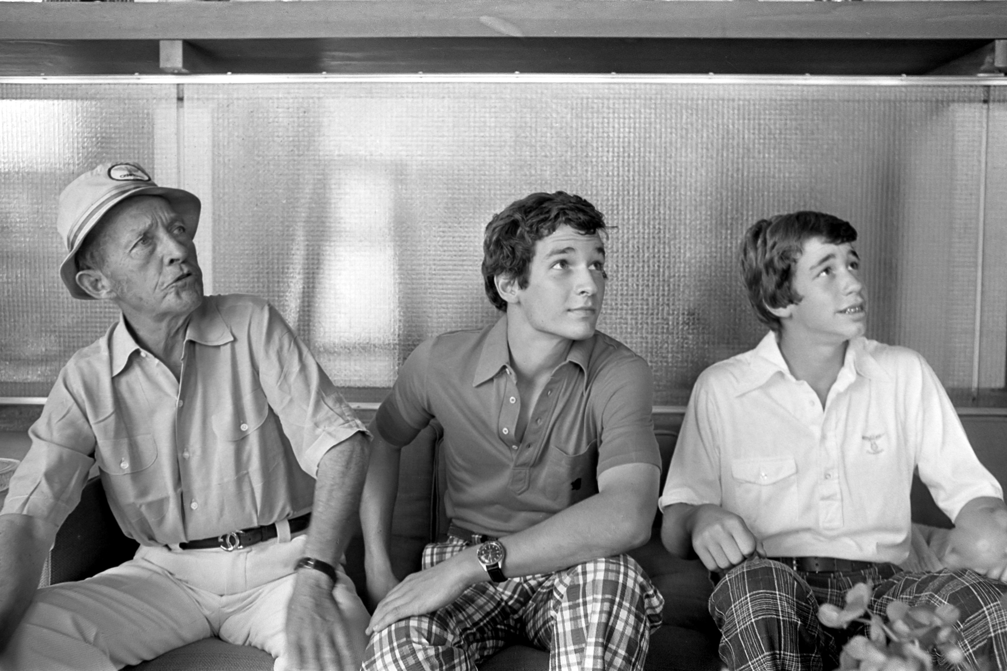 Bing Crosby en Pieter van Vollenhoven op het American Express Pro-Am golftoernooi 1975. Bing Crosby met zijn zoons Harry (m) en Nathan 6 augustus 1975